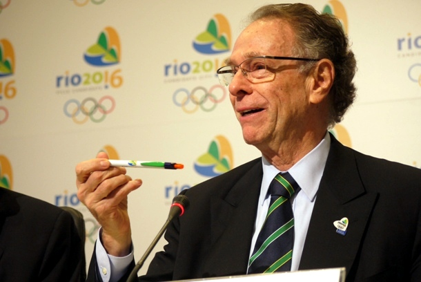 Rio came to Copenhagen prepared for a victory. Nuzman unveiled pens labeled with Rio as “Host City”.